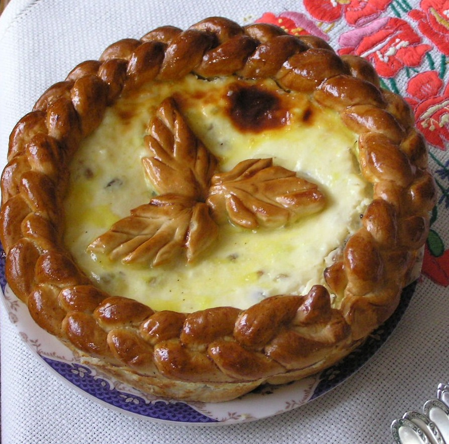 Pască with cheese, one of the traditional dishes for Easter in Romania.